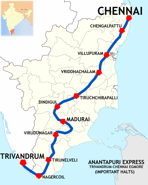 Anantapuri Express (Trivandrum-Chennai) Route map